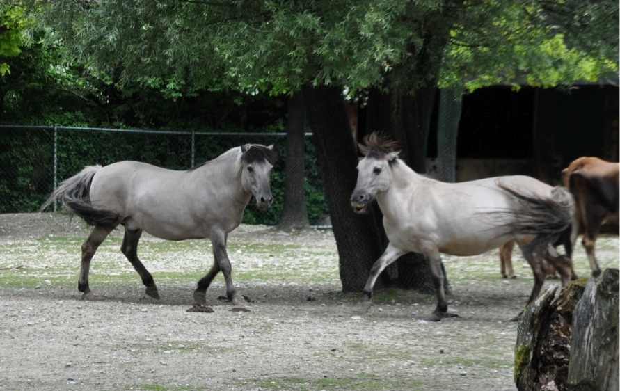 The heck horse is a horse breed created by the heck brothers in order to give life to their image of the Tarpan. However, these horses are not more "wild" than a thoroughbred. Photographed in Hellabrunn, Munich.